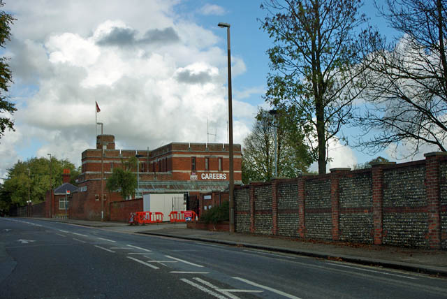 Photo of Roussillon Barracks in Chichester